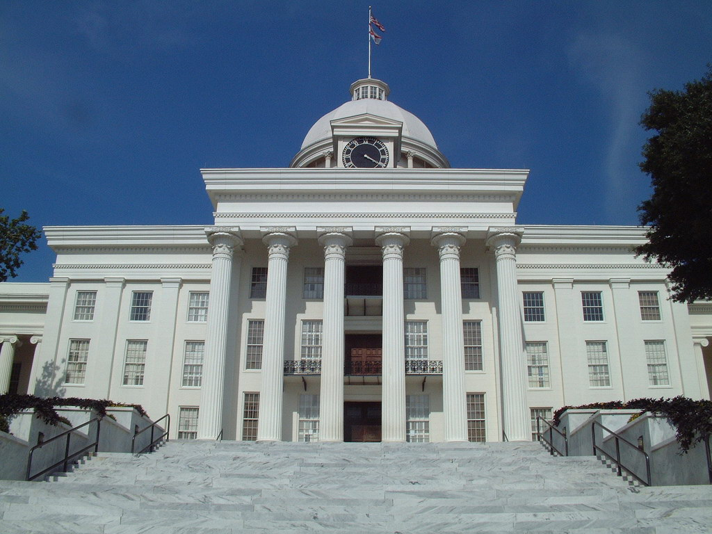 The front (western) elevation of the Alabama State Capitol building in 2006.